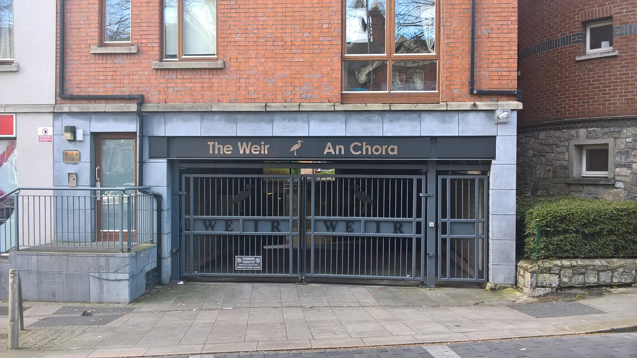 Entrance to The Weir apartments in Chapelizod, Dublin, Ireland.